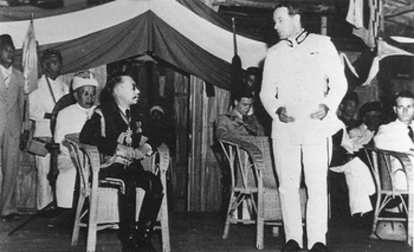 Ahmad Tajuddin listening to a British guest-of-honour during his Silver Jubilee celebration, 1949